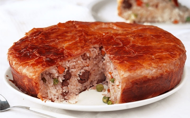 البردة بلاو